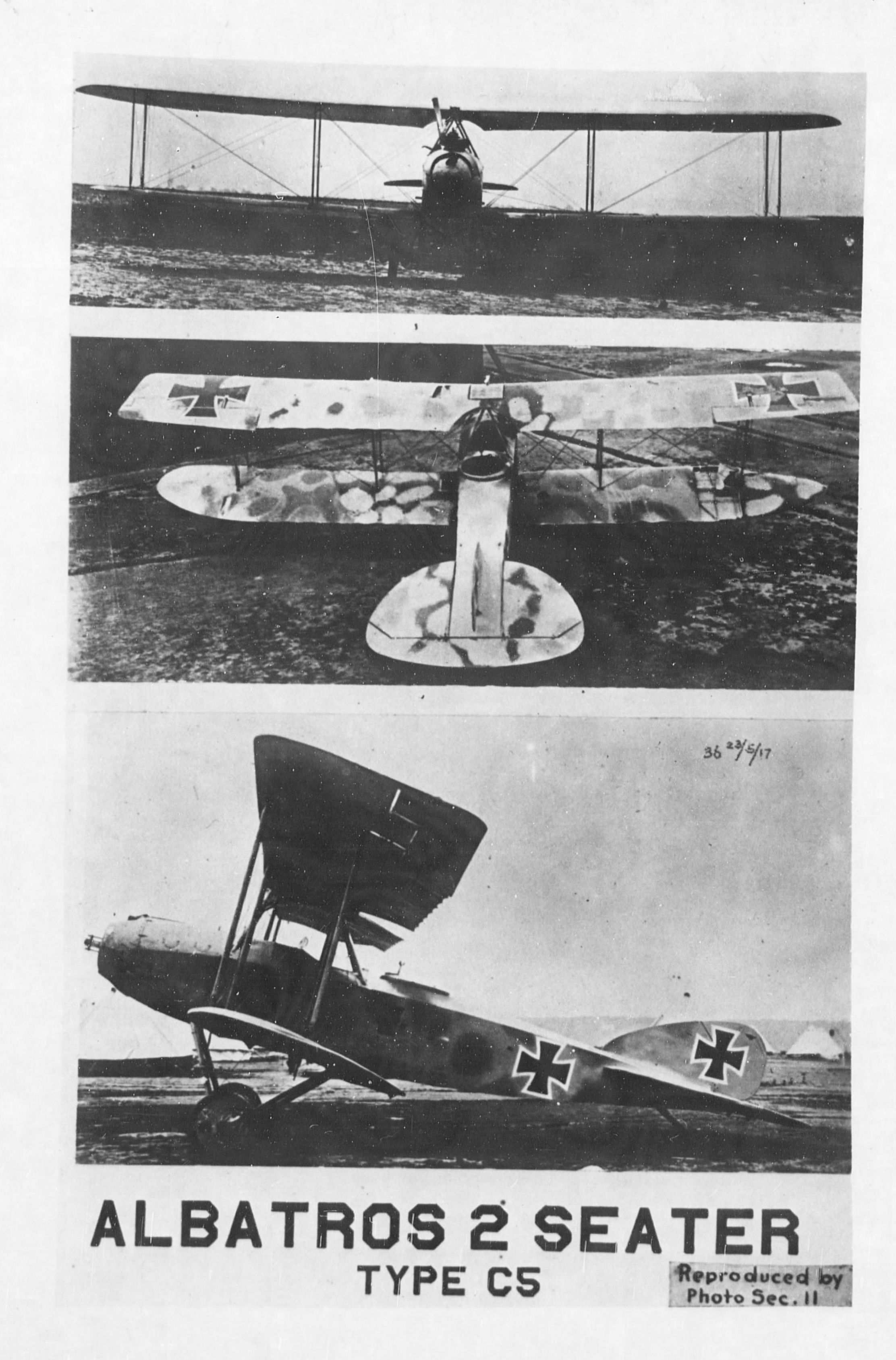 Captured Third Army German Albatros C.V , taken at Coblenz Aerodrome, Germany